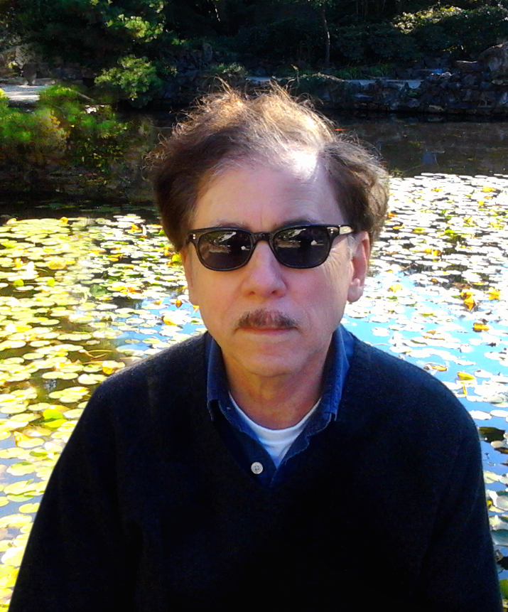 Film Director Terry Zwigoff with a background of lily pads.